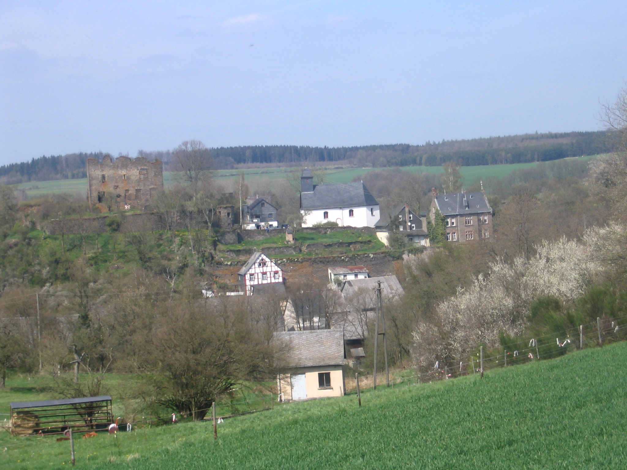 Village Dill in the Hunsrück landscape, Germany